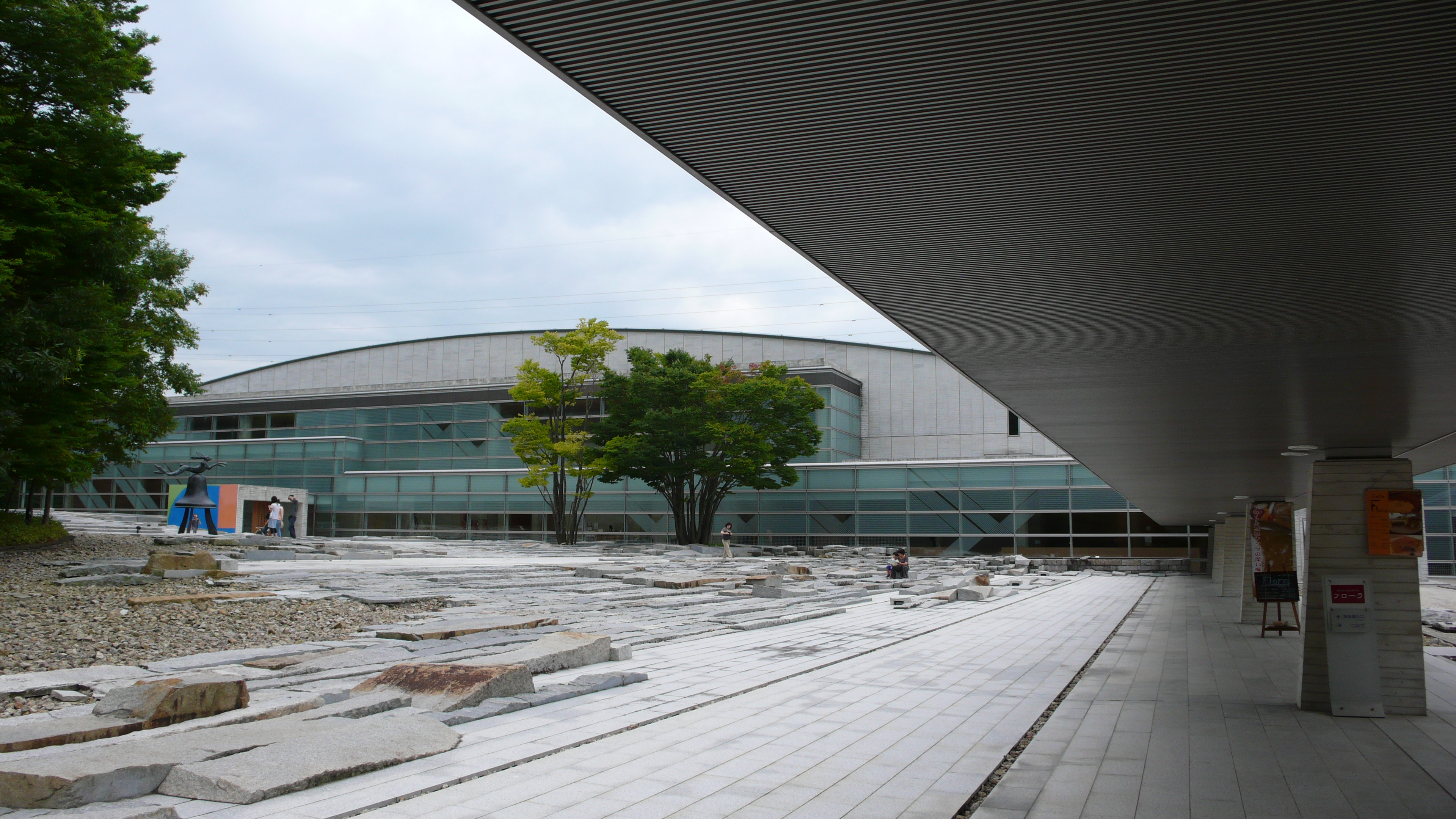 Koriyama City Museum of Art in Koriyama, Fukushima pref., Japan.